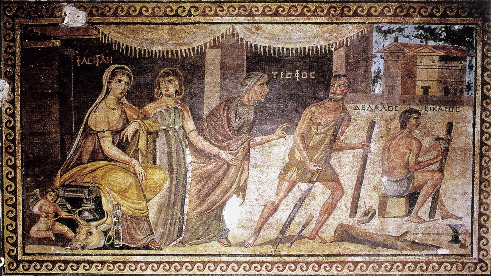 PASIPHAE, DAIDALOS & THE WOODEN COW Museum Collection: Gaziantep Museum, Gaziantep, Turkey Queen Pasiphae seated on a throne attended by a maiden and old Trophos (her nurse?) receives the wooden cow from the artisan Daidalos. Eros, the winged god of love, plays with the head of the crafted beast beneath her throne.